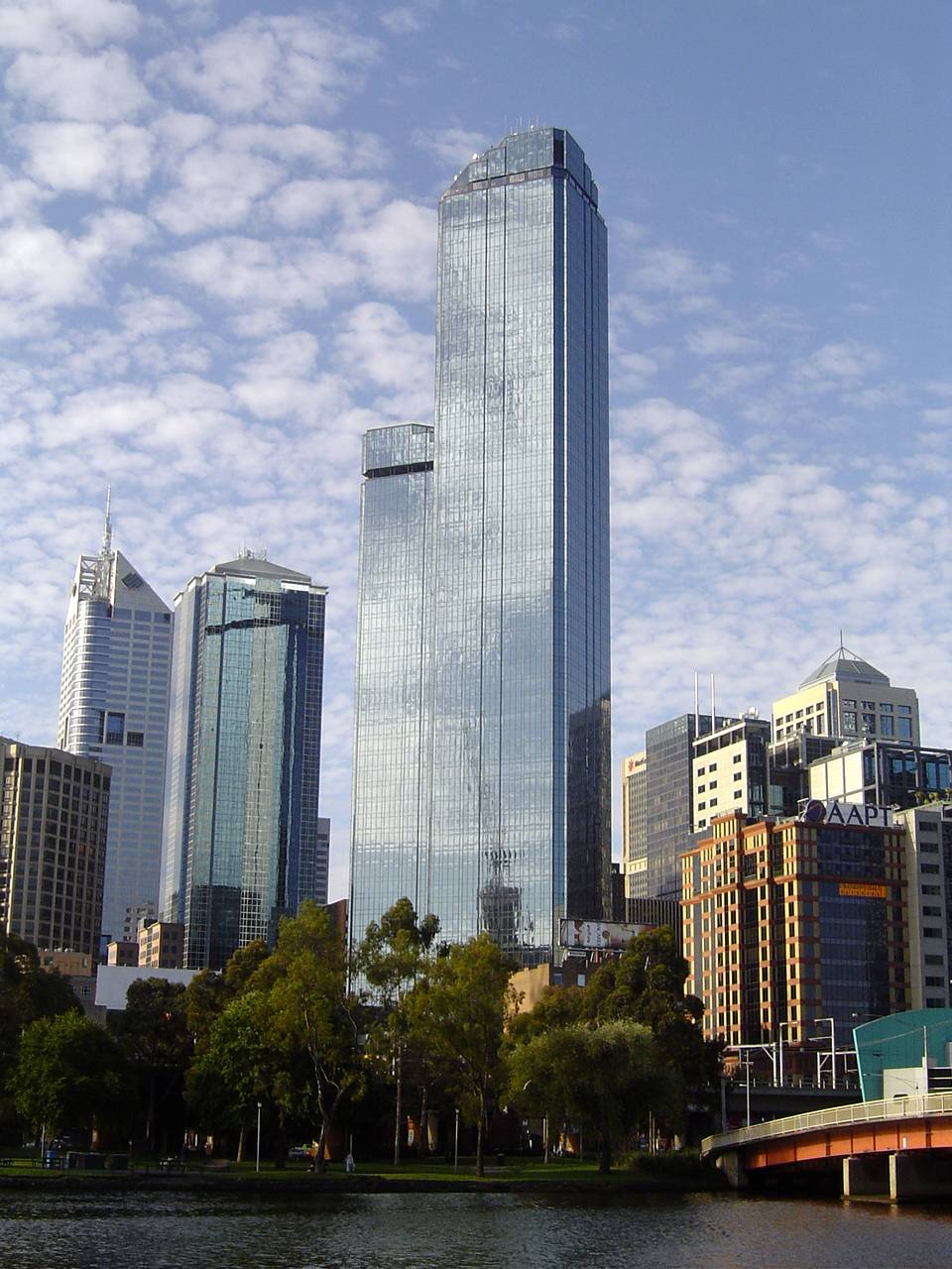 Rialto Towers at Melbourne, Australia, in daylight, seen from the eastern side.